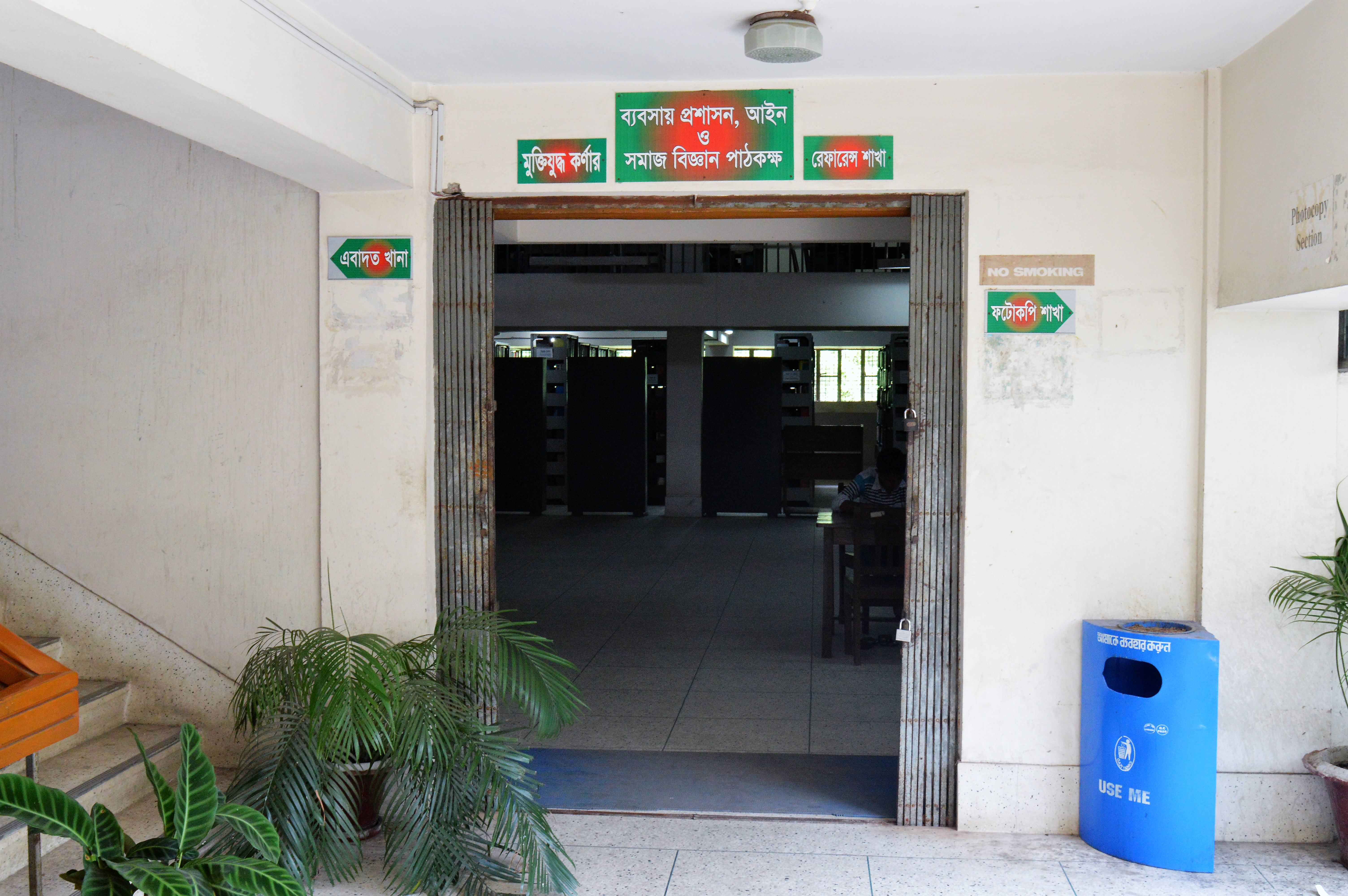 Reading rooms at Chittagong University Library